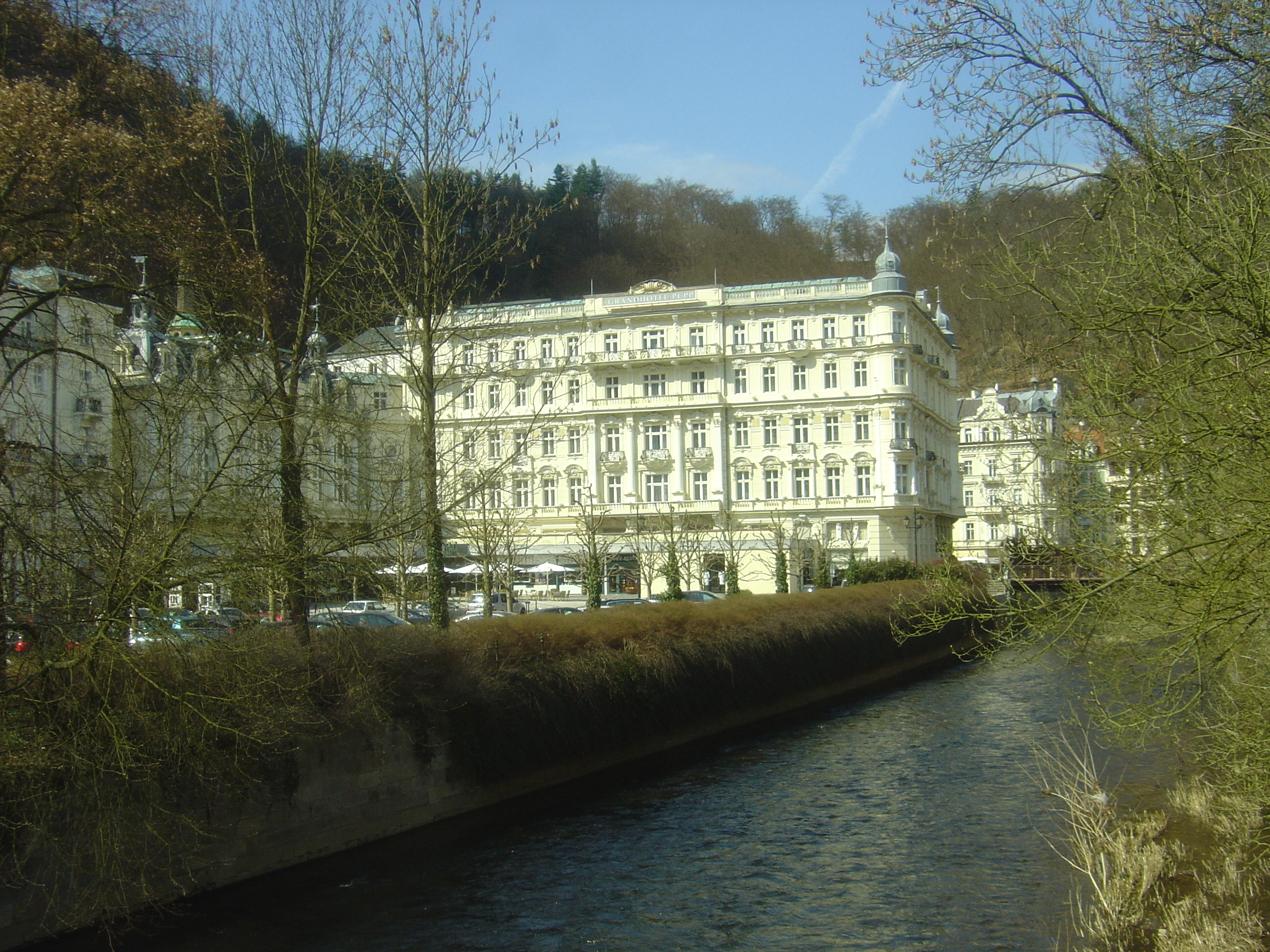 Grandhotel Pupp, Karlovy Vary